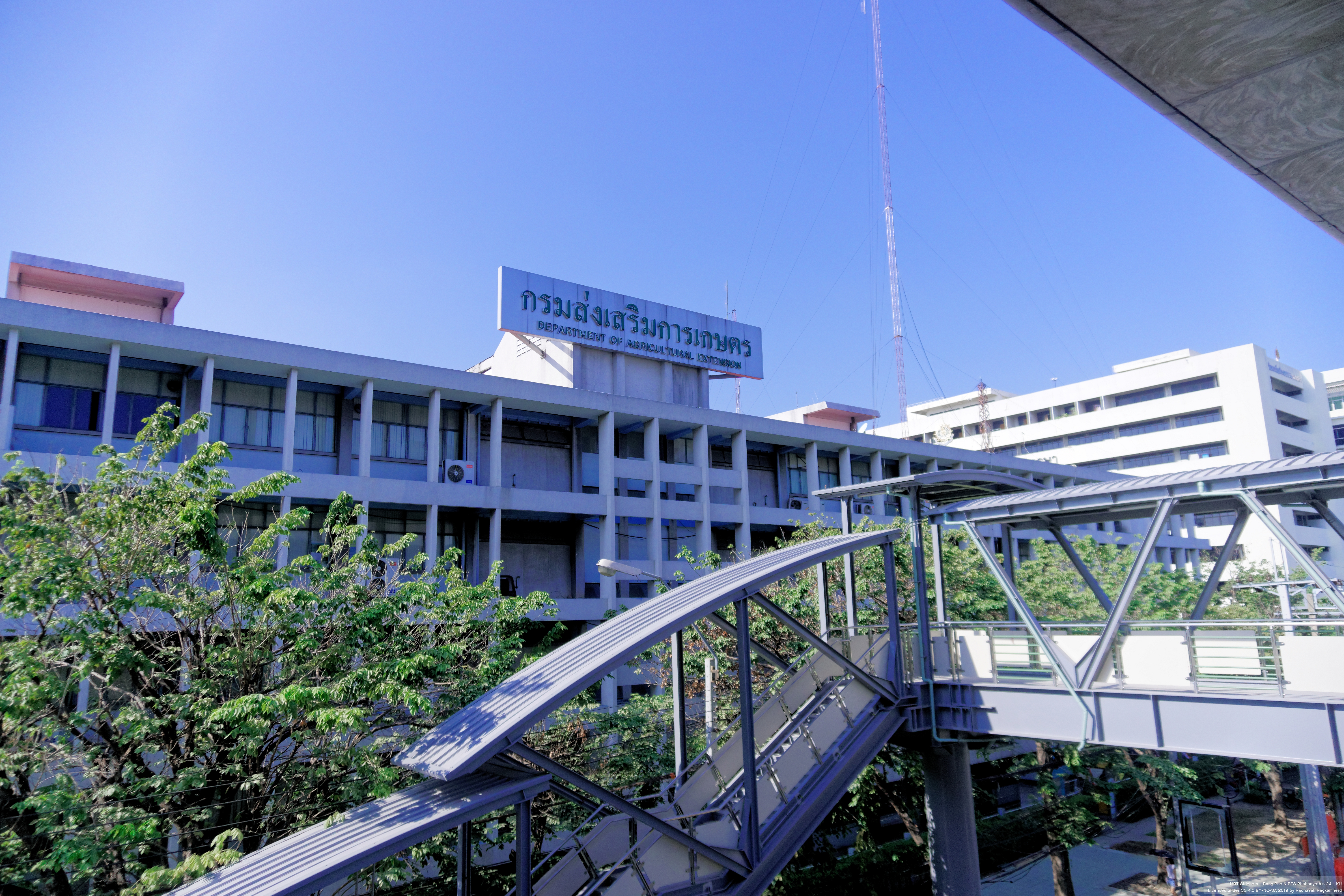 BTS Kasetsart University - Department of Agricultural Extension building